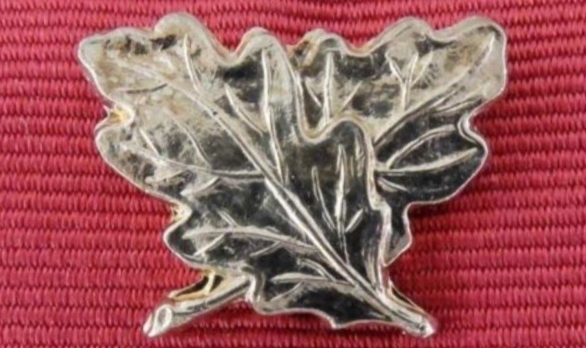 Crossed silver oak leaves emblem for gallantry, worn on ribbon of Order of the British Empire.